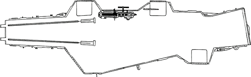 Deck plan of the U.S. Navy aircraft carrier USS Midway (CVA-41) following her SCB-110.66 refit, in 1970.